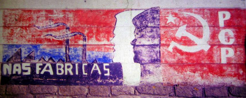 PCP in factories